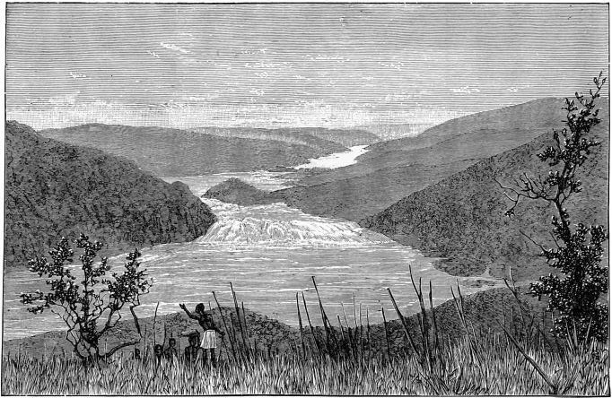 View of Yellala Falls, Congo, from the left bank